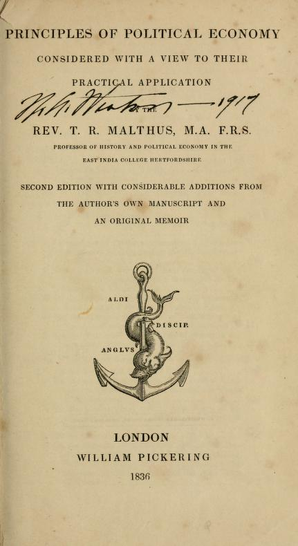 This is the first page of the book Principles of political economy by Thomas Robert Malthus.